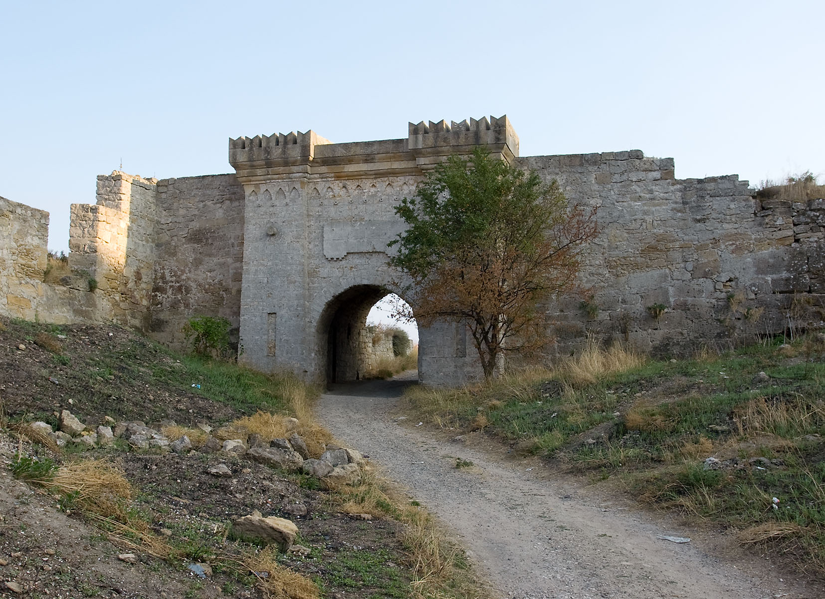 Yenikale fortress, Eastern Gate